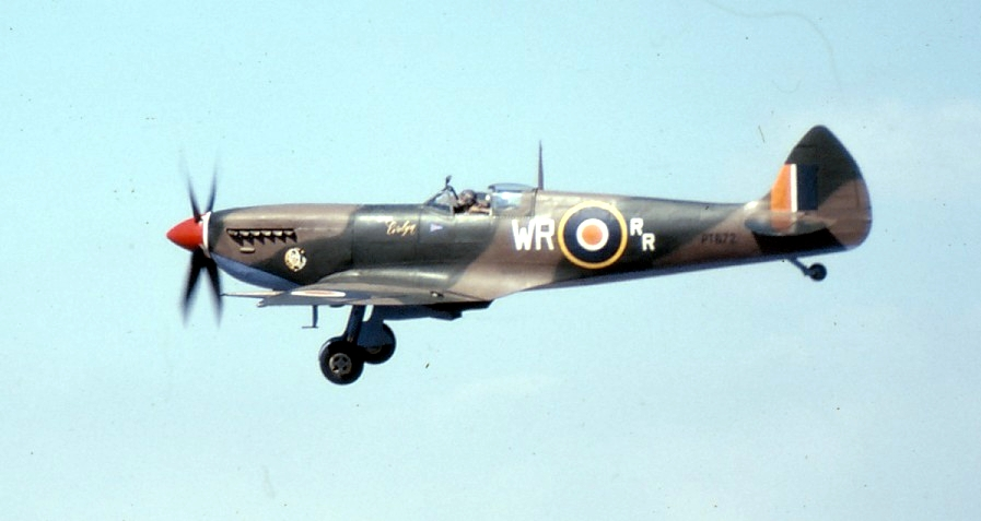 Spitfire Mk.IX no. PT672 at AFB Ysterplaat, flown by Major Alan Lurie. WR Markings signify 40 Squadron SAAF (Jun 43 - Oct 45) and RR identifies aircraft as originally having been flown by Lt Col R.R. (Bob) Rogers, OC 40 Sqn.